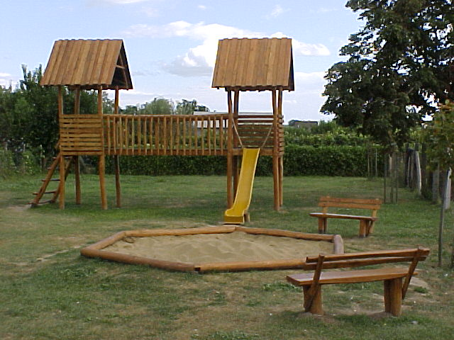 Playground in Ramocsaháza, Hungary